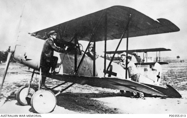 Pfalz D. XII fighter